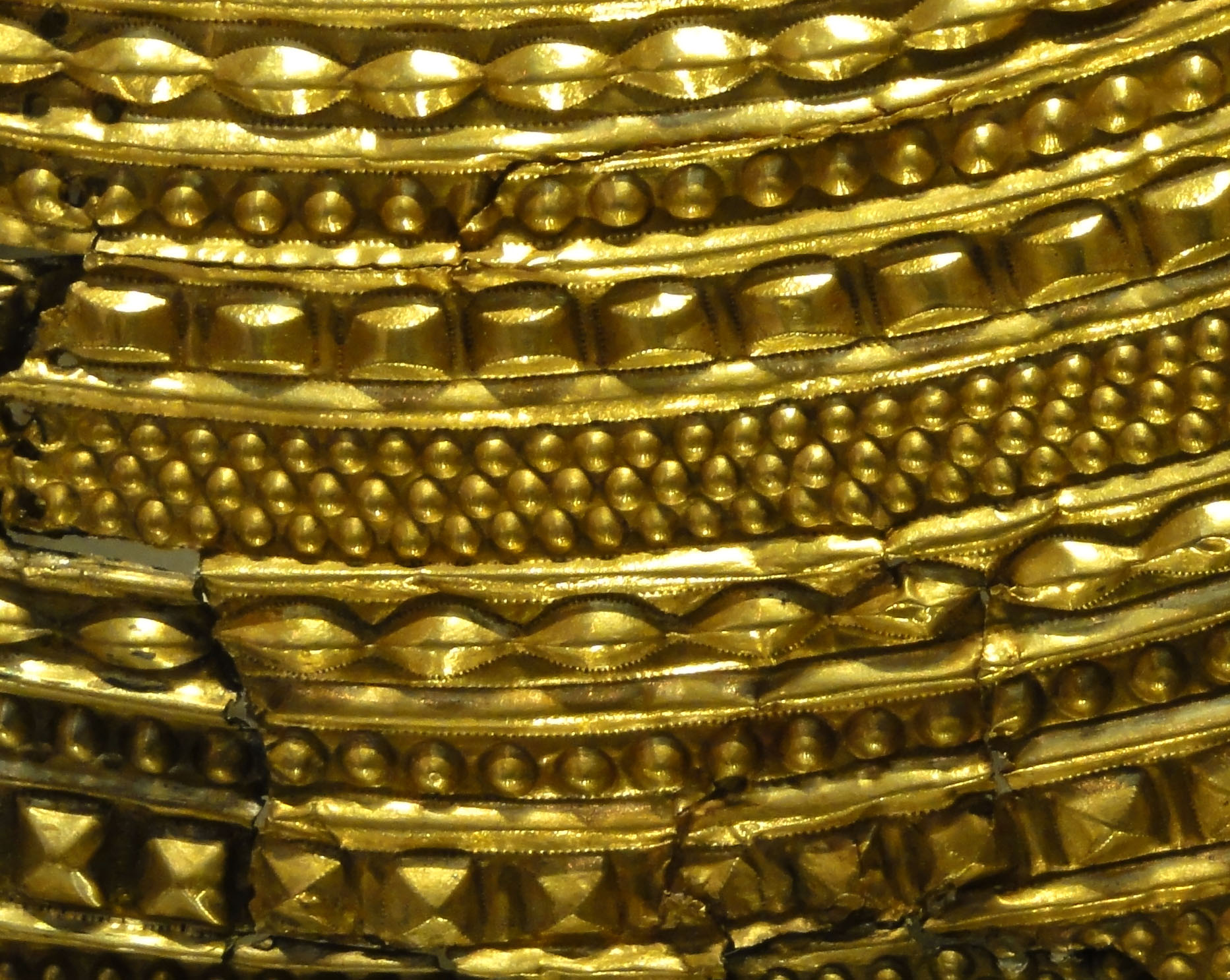 Detail of Mold cape in the British Museum, showing tool marks.